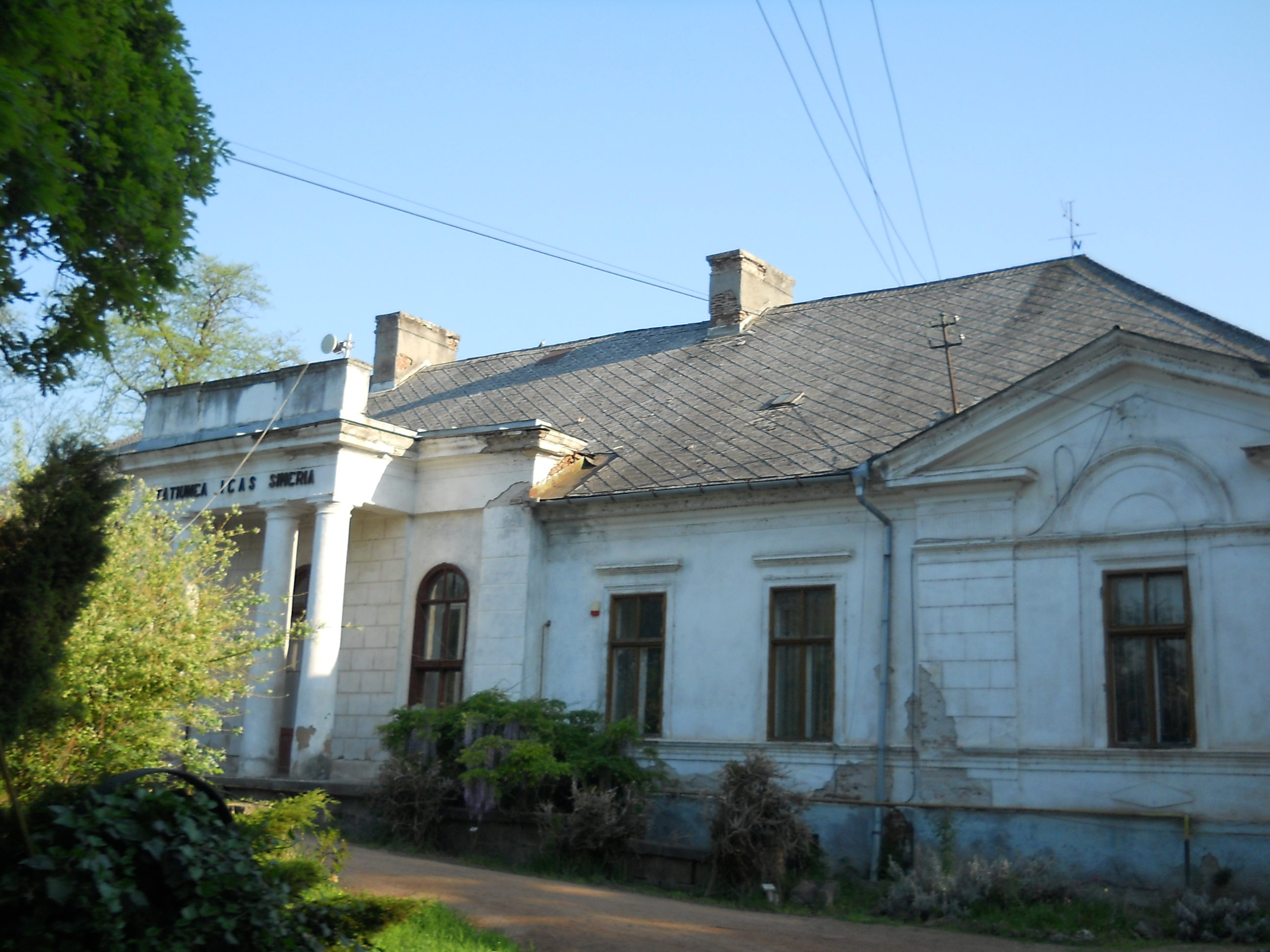 Castelul Bela Fay din Simeria